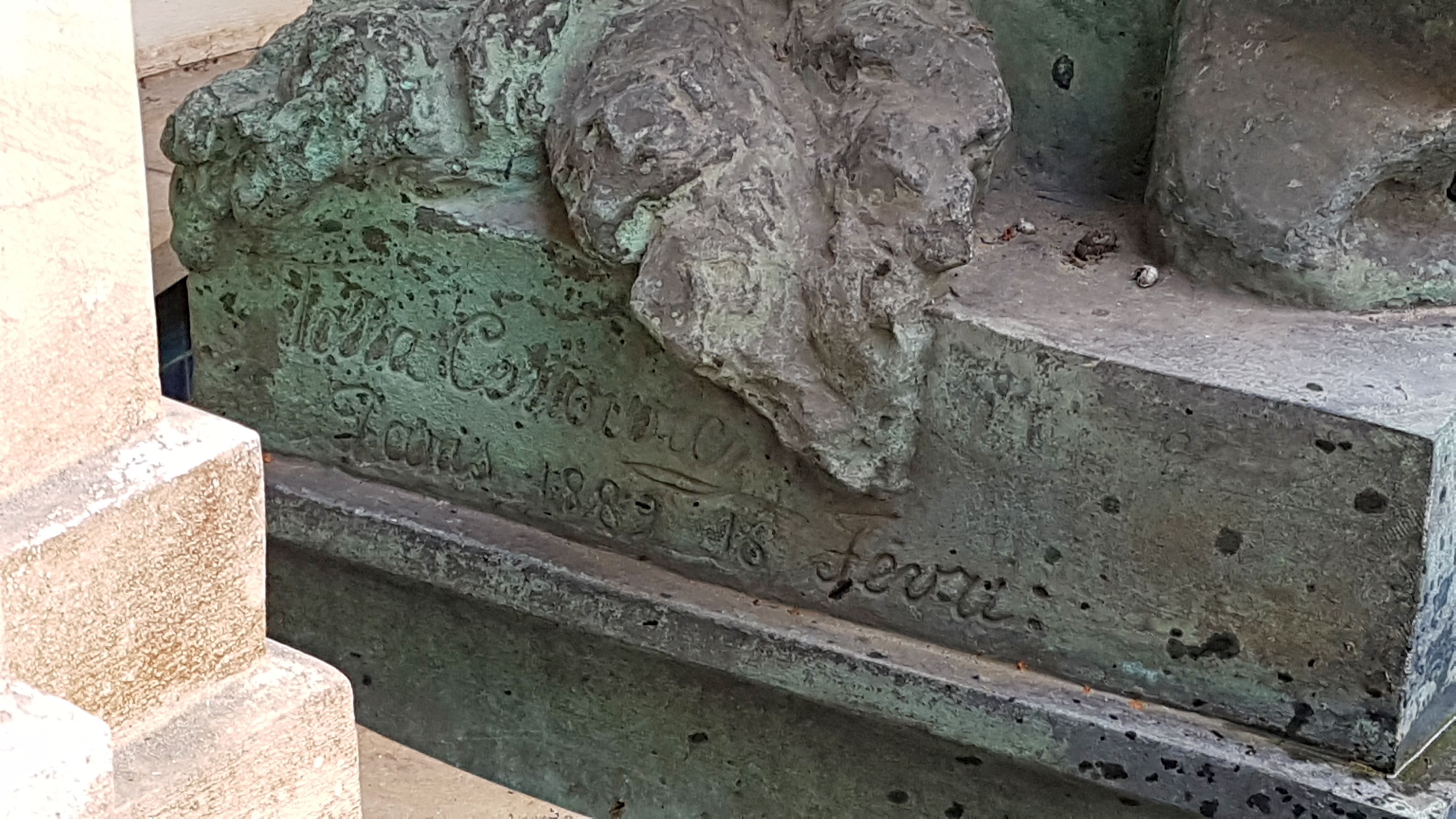 Teofila Certowicz